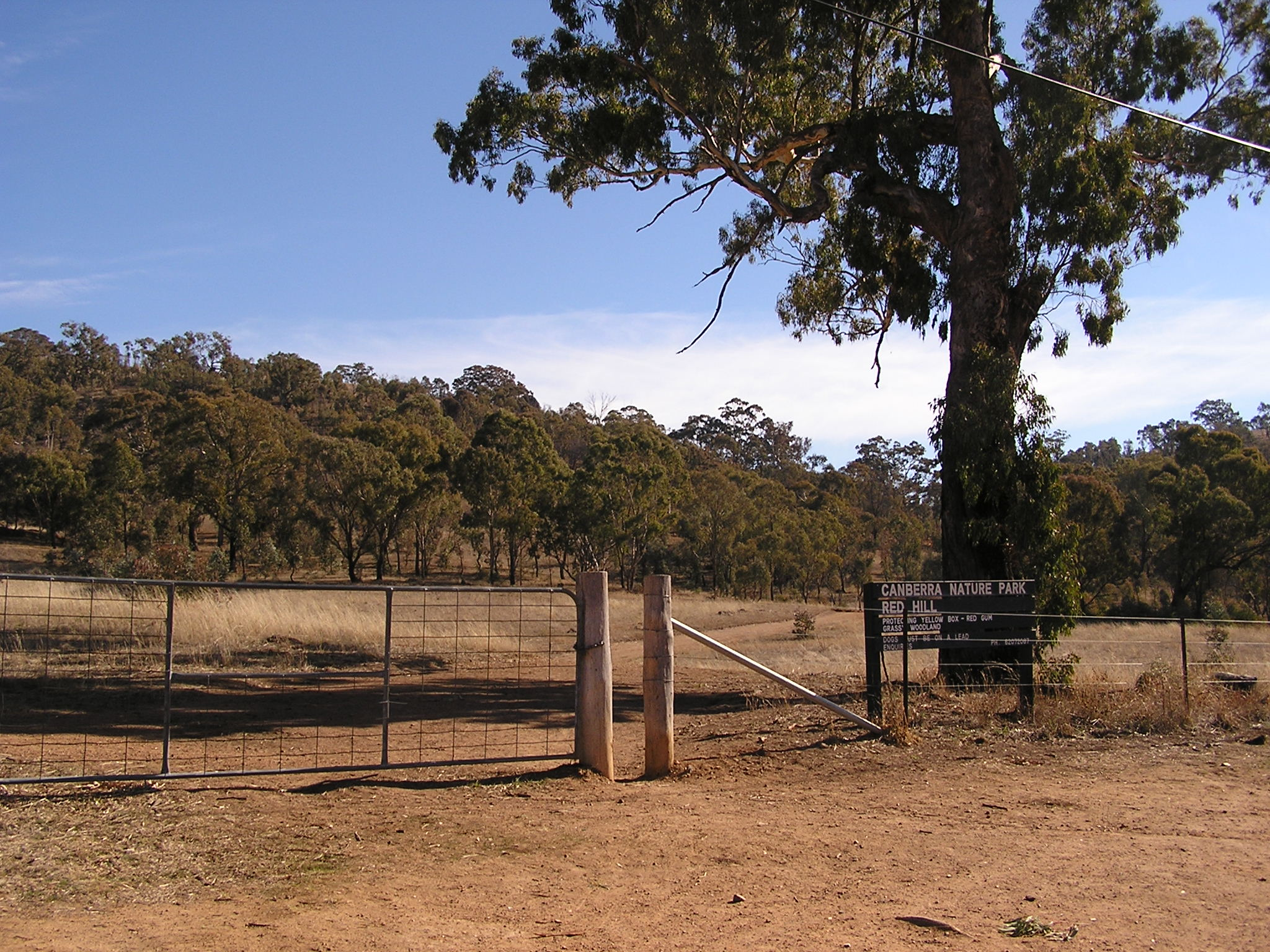 Entrance to Red Hill Reserve, Canberra Nature Park, Australian Capital Territory, Australia in June 2004.